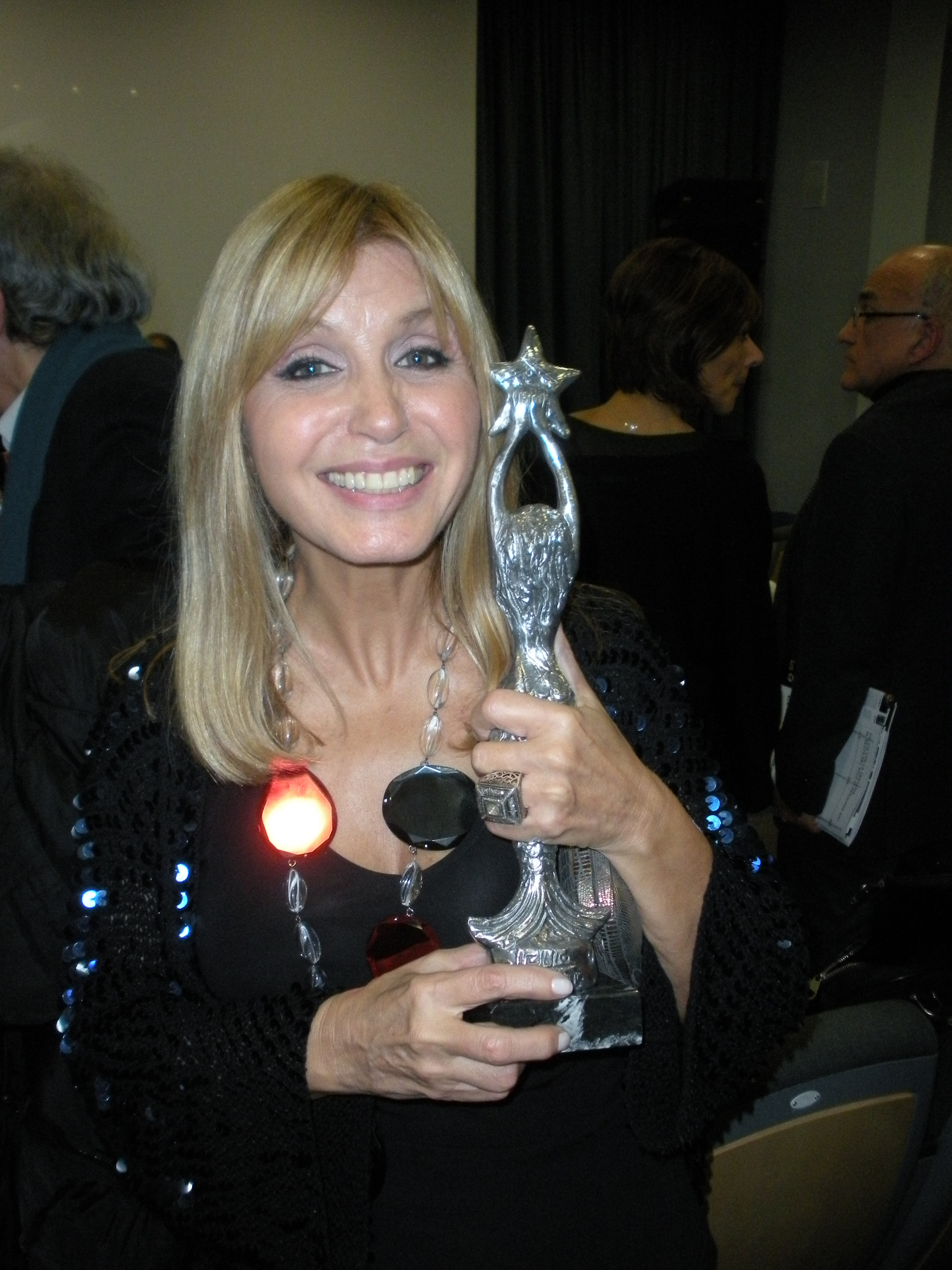 Dori Ghezzi, Italian singer, at 2011 "Capri, Hollywood" Film Festival.